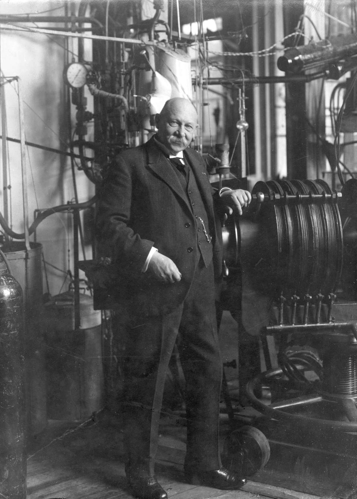 Prof. dr. Heike Kamerlingh Onnes, 1926.